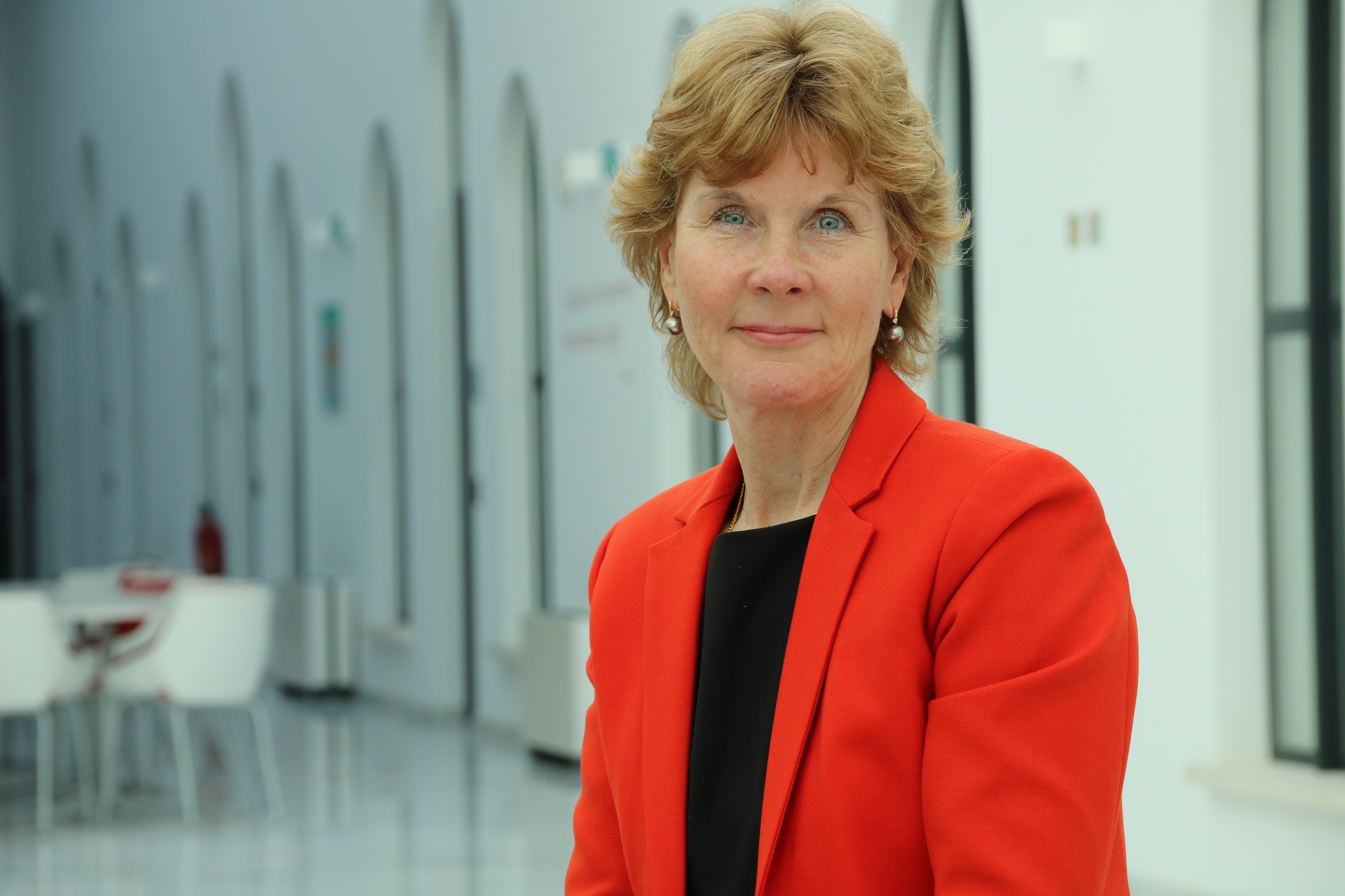 Professor Catherine Bachleda in the University of Gibraltar atrium